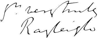 This is Lord Rayleigh (1842-1919)'s autograph.